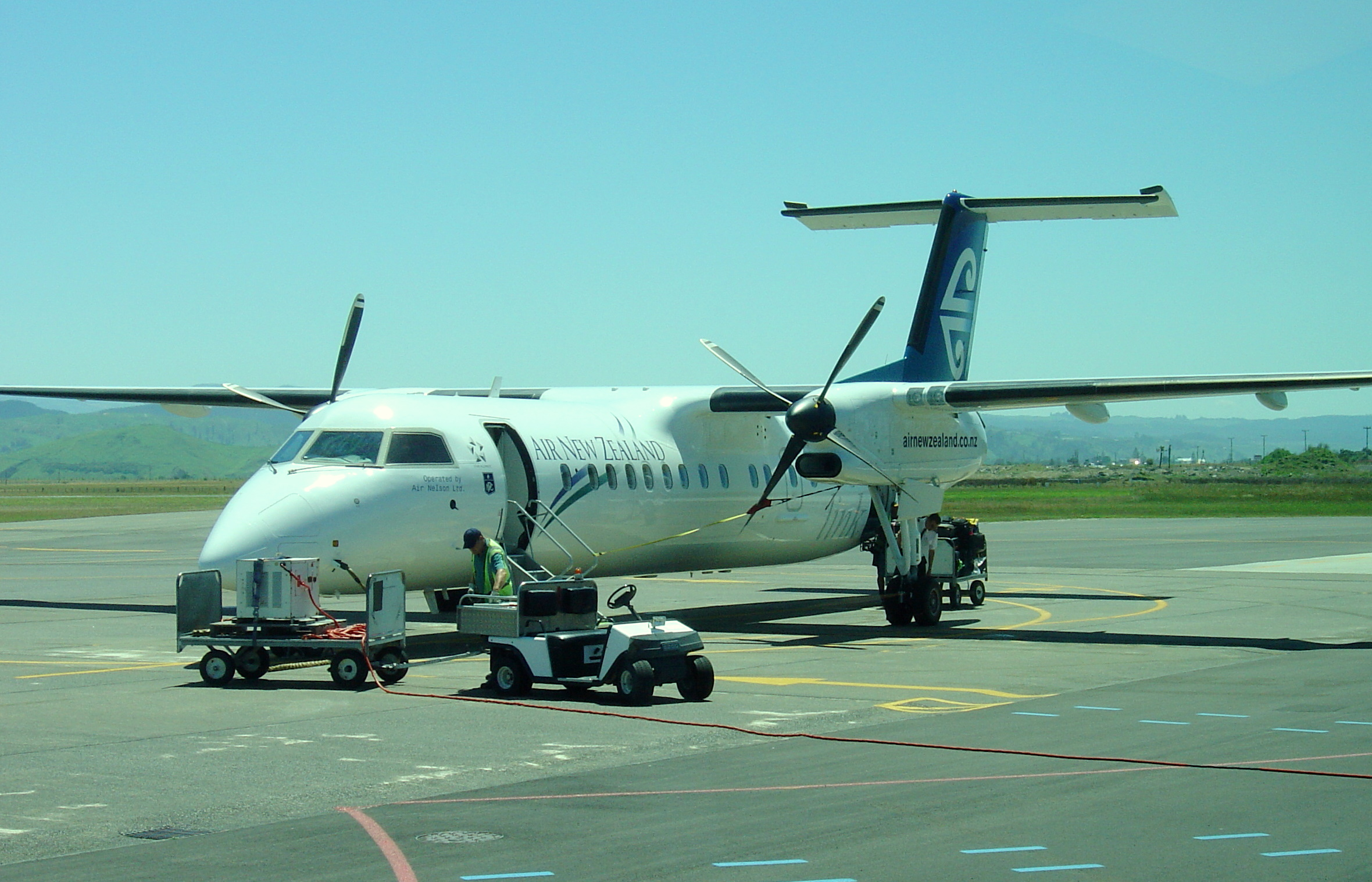 Air Nelson Bombardier Q300 at Napier Airport, November 2005